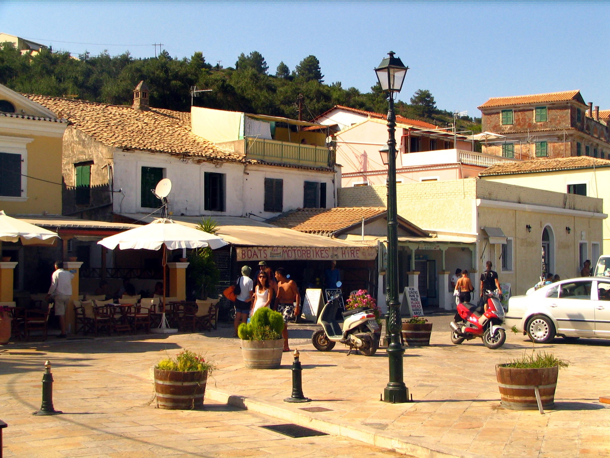 The main square ("Plateia") of Gaios, Paxos, Greece